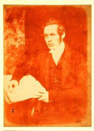 Salted paper print made in 1843/1847 by David Octavius Hill (1802-1870) and Robert Adamson (1821-1848). Portrait of the Revd Stephen Hislop (1817-1863), Free Church Minister and missionary to Nagpur, India.